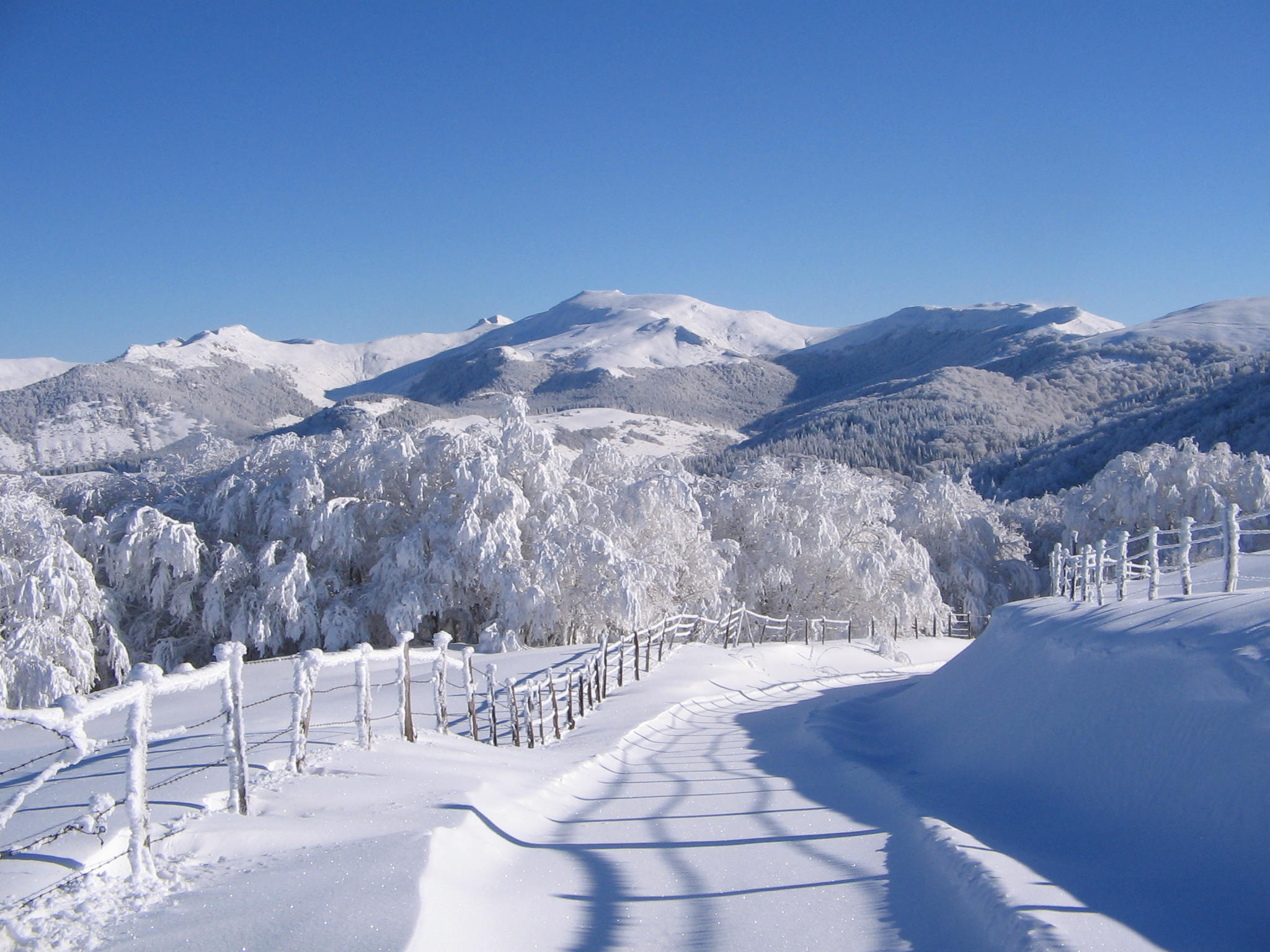 Skiing in Cantal.